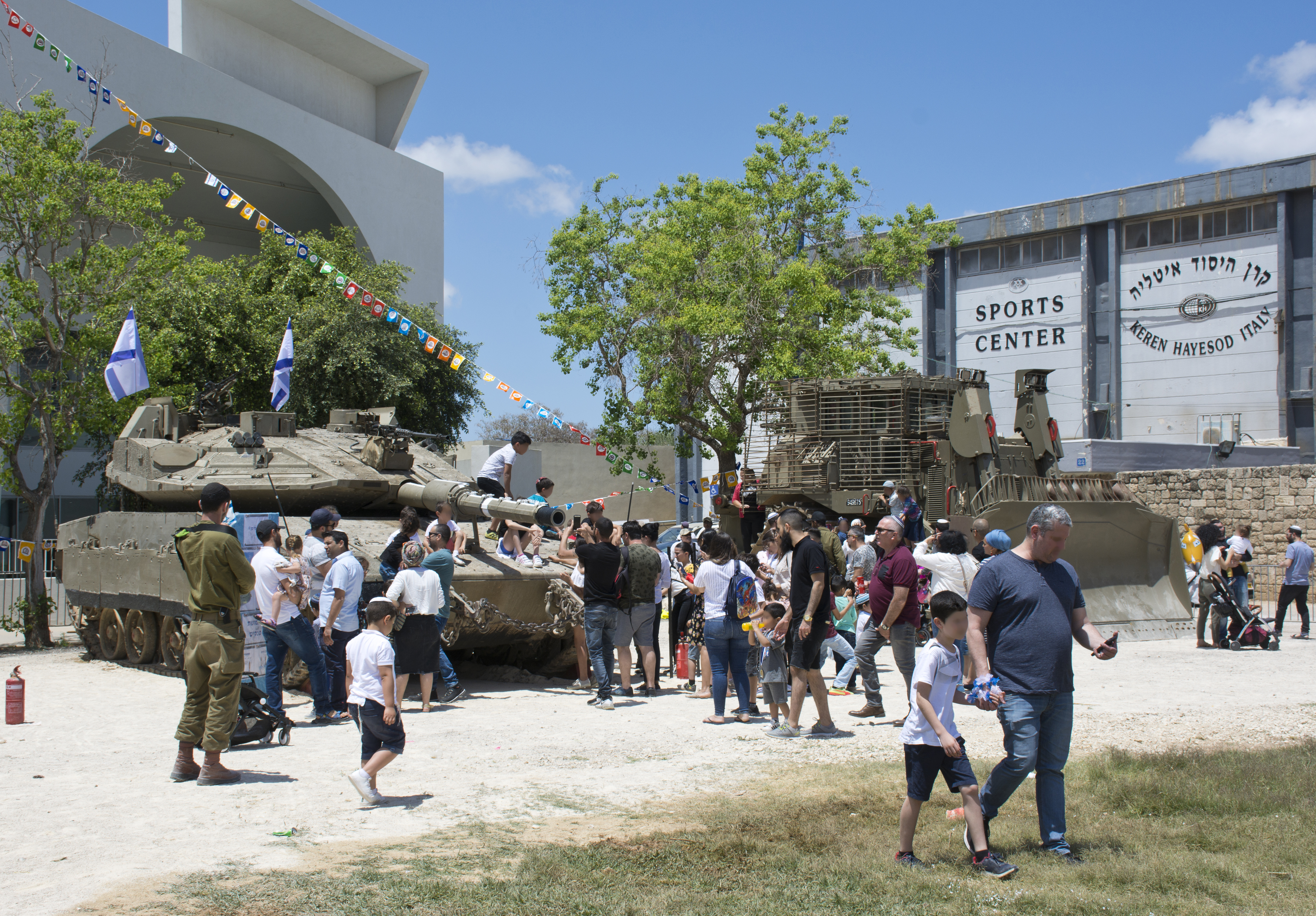 IDF camp in Sderot, Israel's 71th Independence Day, Israel 2019